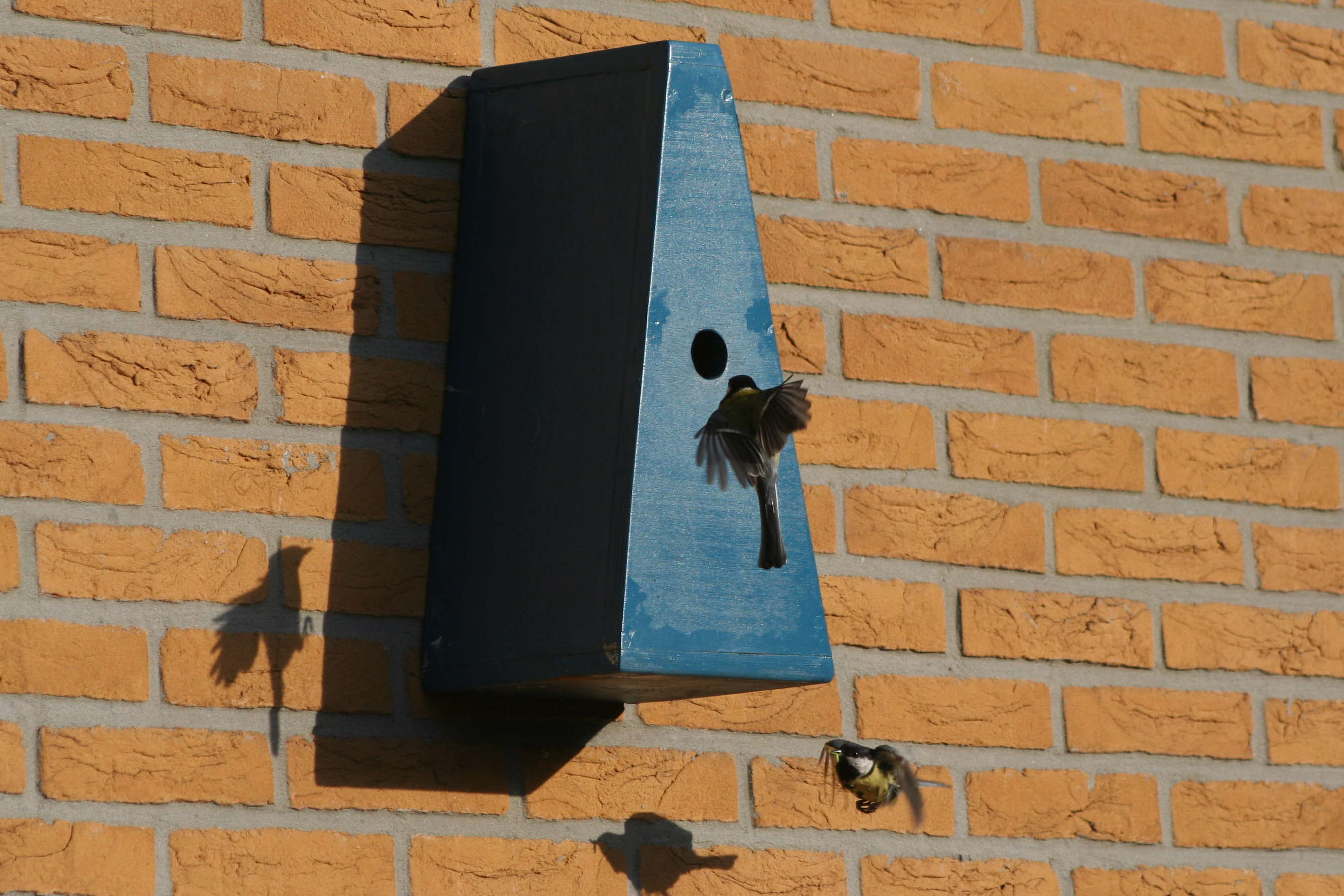 Nest box with Parus major